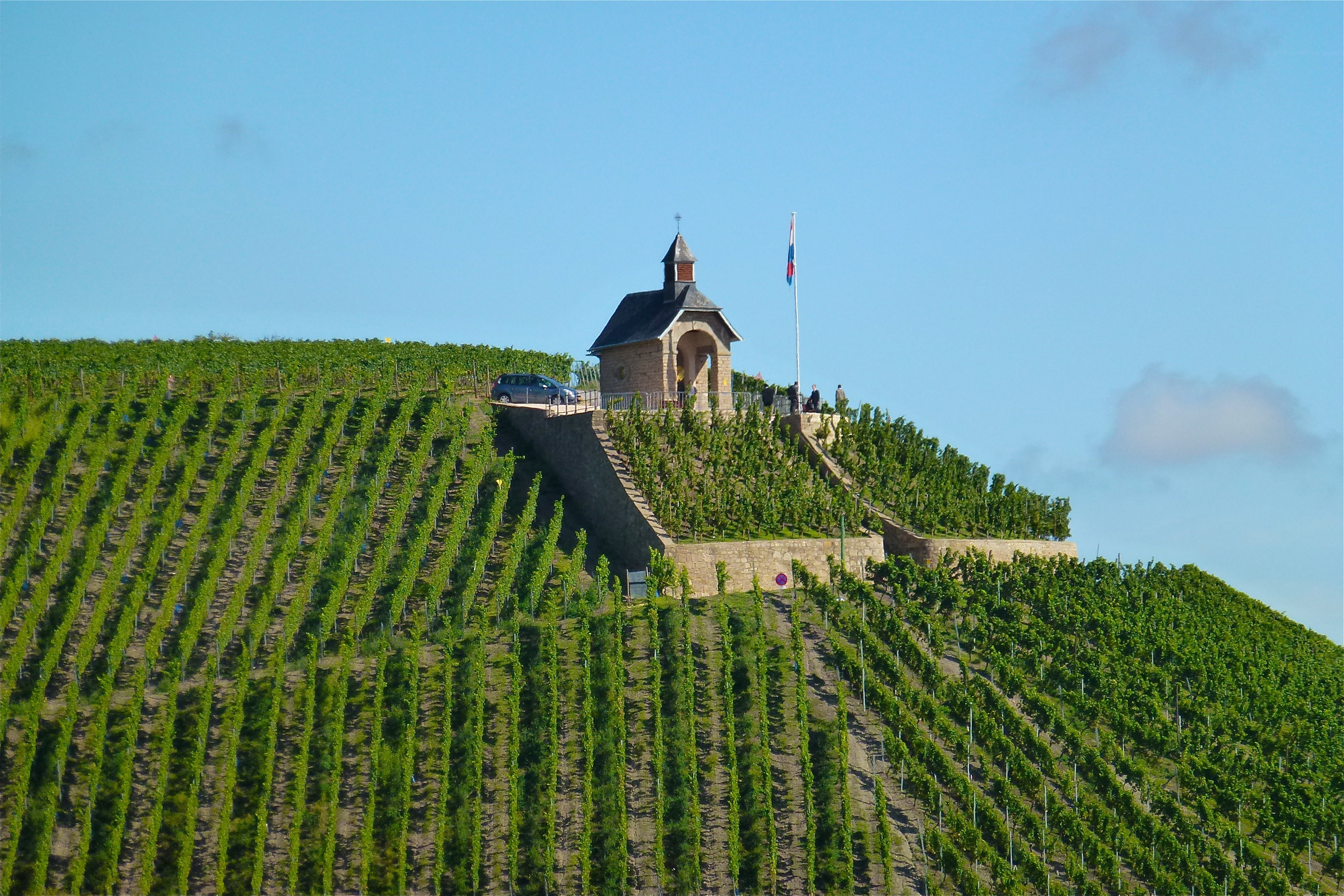 SAINT DONAT CHAPEL in WORMELDANGE KOEPPCHEN, situated on top of the vineyards along the Moselle, LU